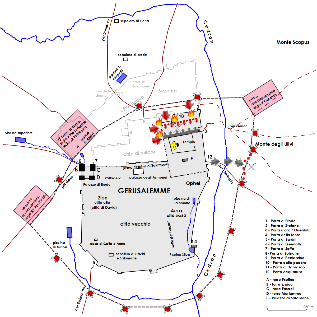 Jerusalem at the time on siege of 70 - 8th step